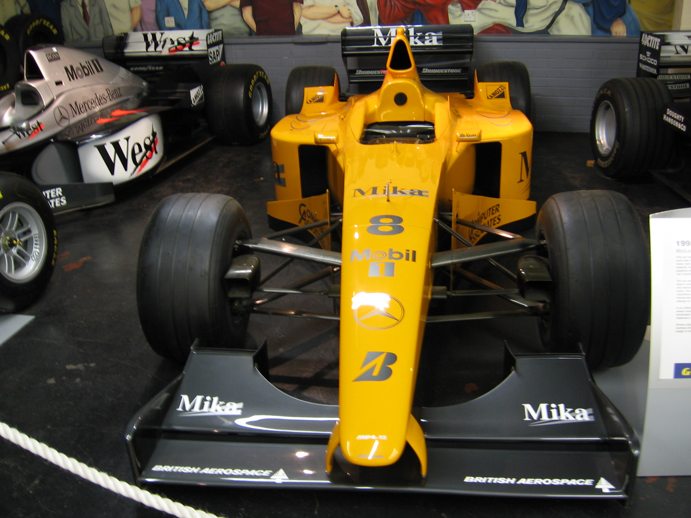 Mclaren MP4/12 in Test Livery, used for testing prior to the "West" livery's release, ending a 23 year relationship with the Marlboro brand.